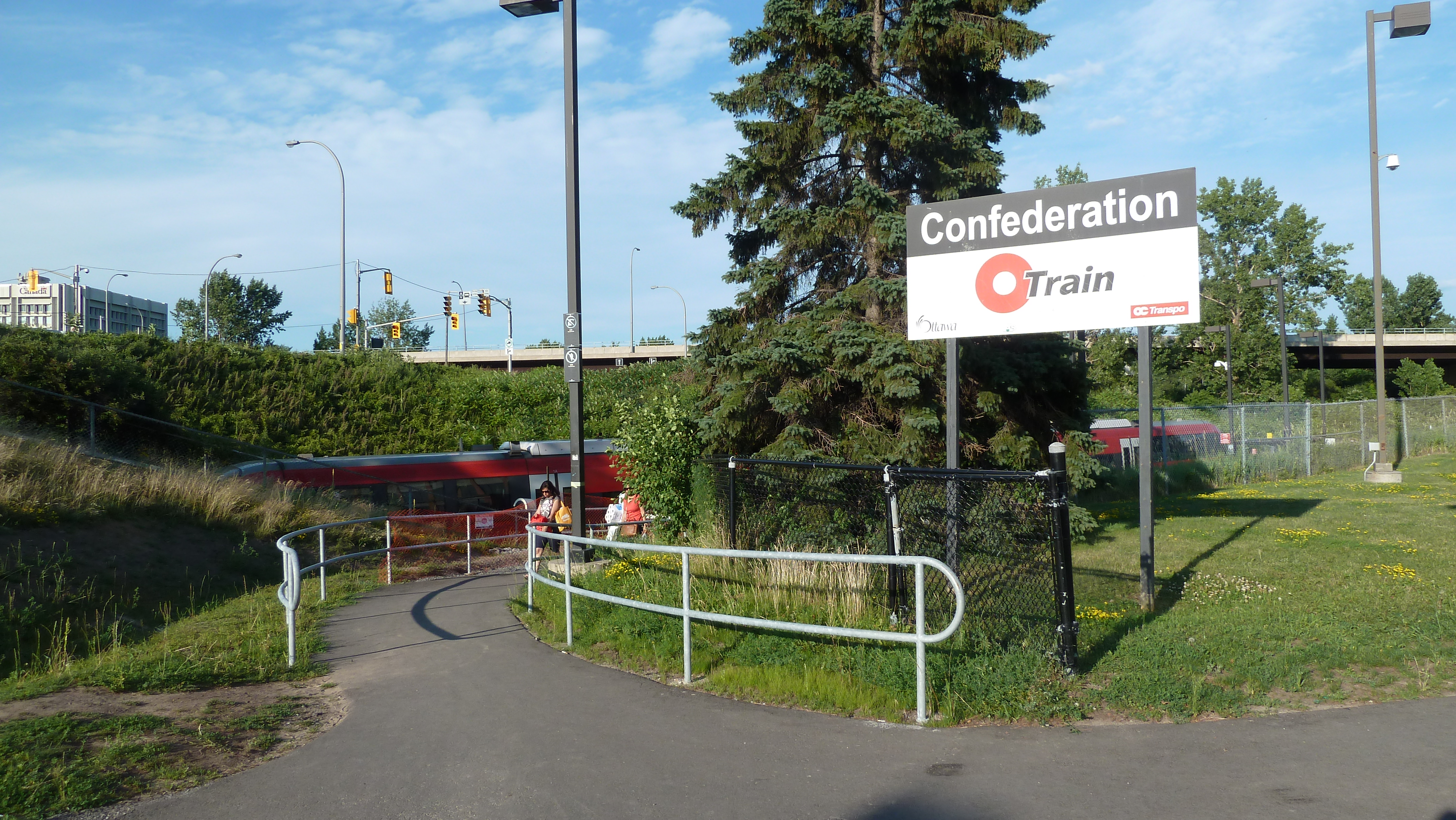 Confederation O-train station in Ottawa